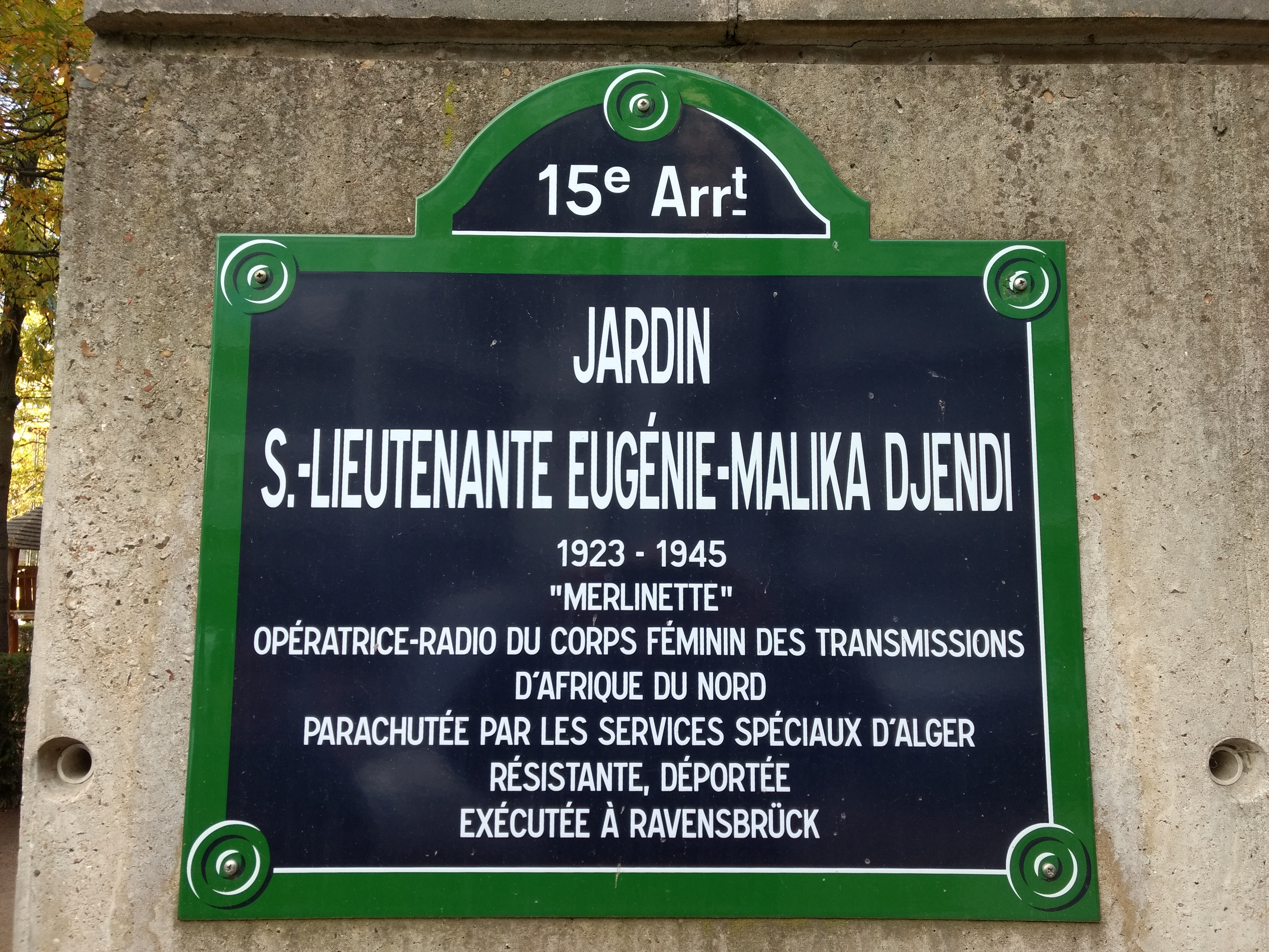 Jardin Eugénie-Malika Djendi, Paris 15e, France.